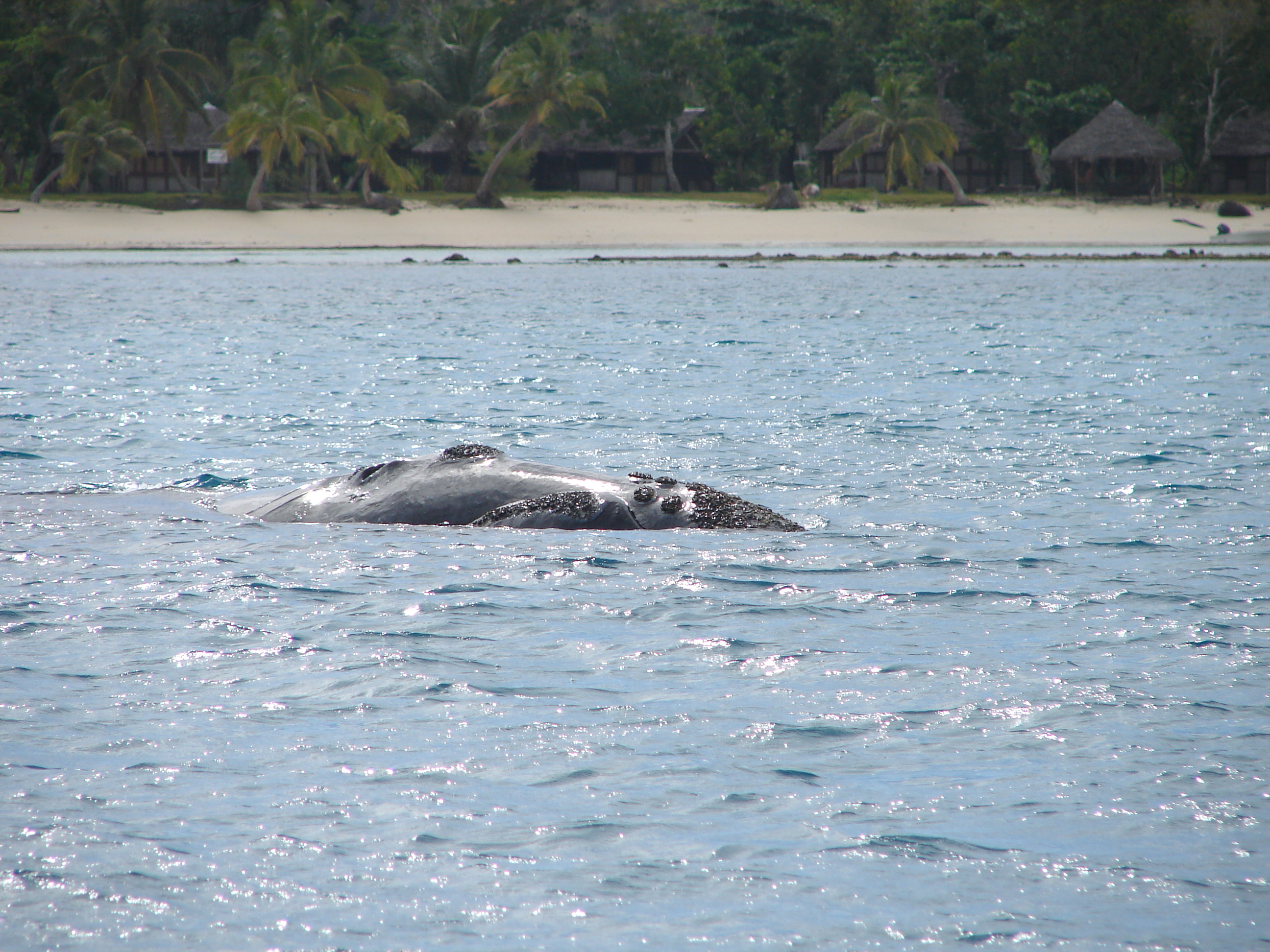 Southern right whale (Eubalaena australis), Île Sainte-Marie